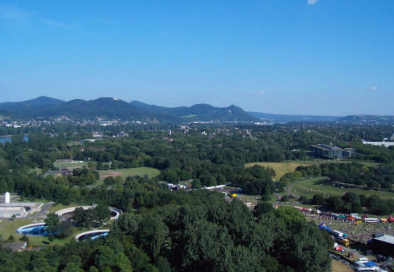 Rheinaue Leisure Park Bonn – View of the Siebengebirge hills.